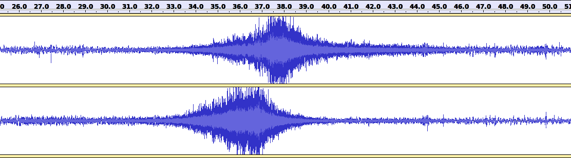 Screenshot of a soundfile loaded into Audacity. A car travels past a stereo microphone and the file reveals the time difference between left and right. Sound recorded somewhere in Devon in 2013.